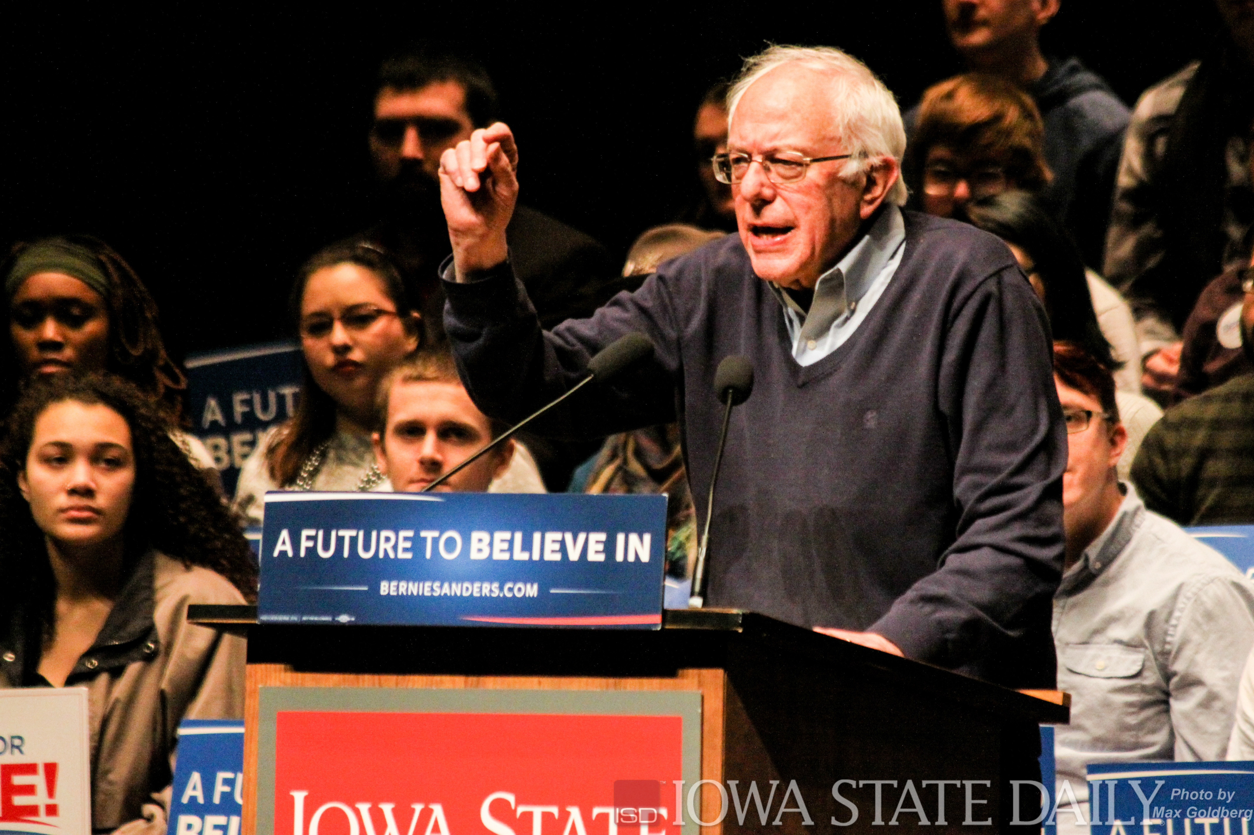 Democratic presidential hopeful Bernie Sanders hosts a town hall meeting at Stephens Auditorium on Jan 25. During the meeting, Sanders spoke about getting young people to vote, economic reform, gun violence, the legalization of marijuana, women’s rights, and more.